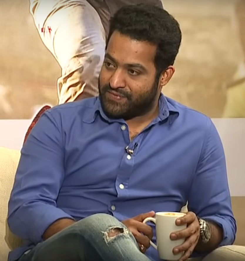 Jr. NTR at Interview for Aravinda Sametha